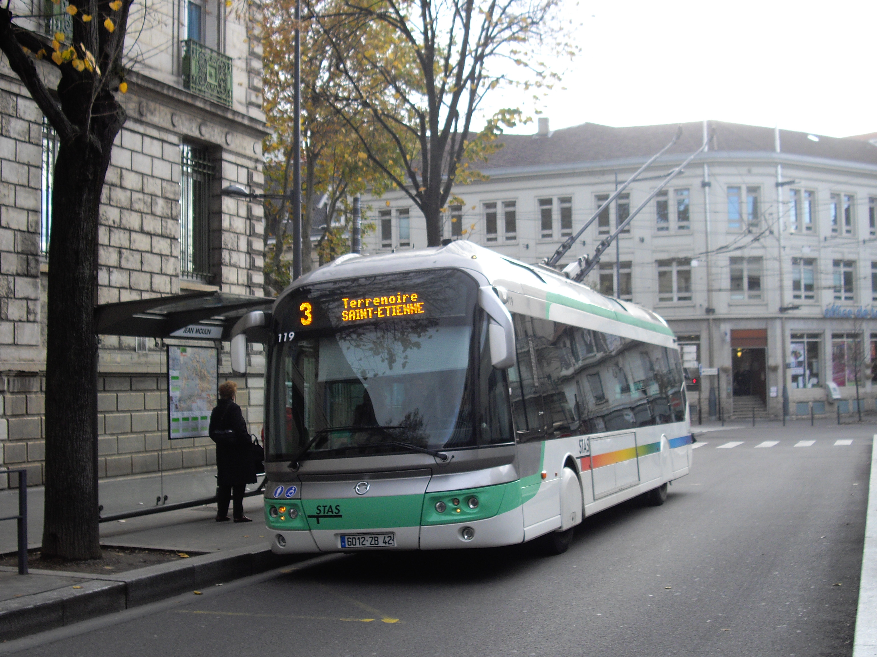 Irisbus Cristalis trolleybus (#119) in Saint-Étienne, France.